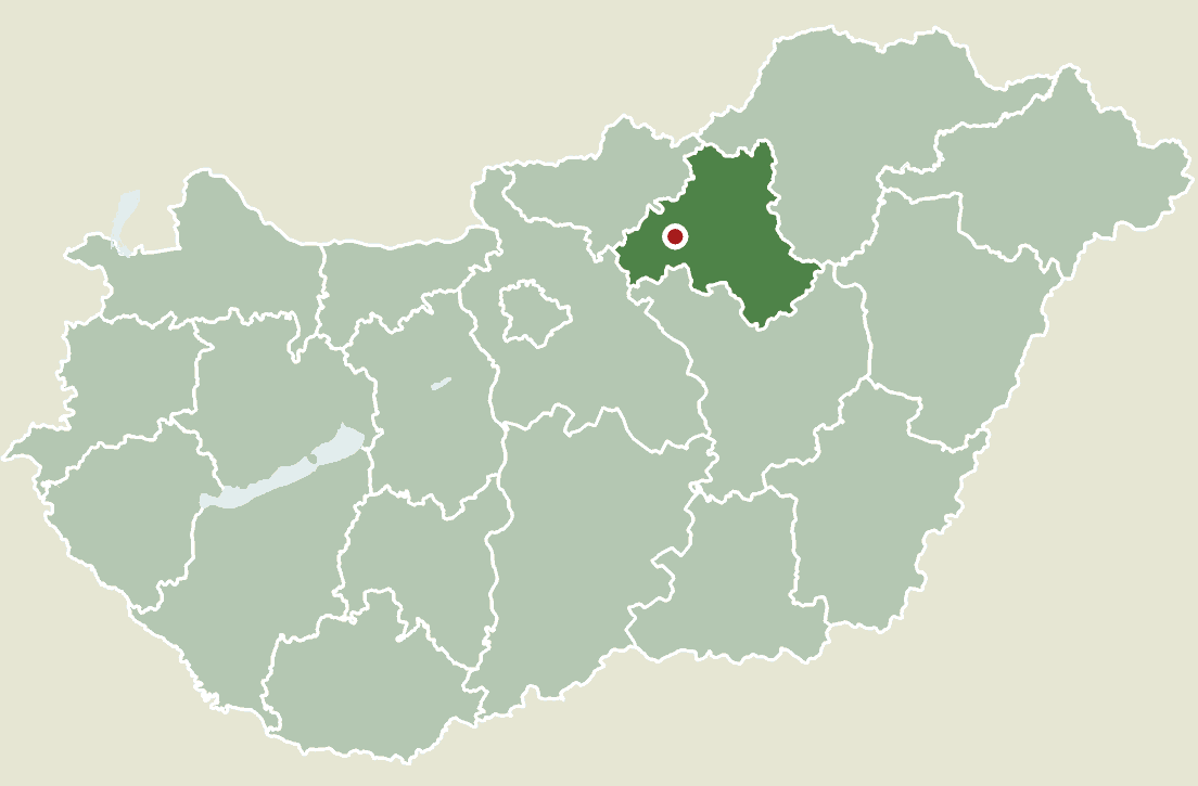 The location of Gyöngyös in Hungary